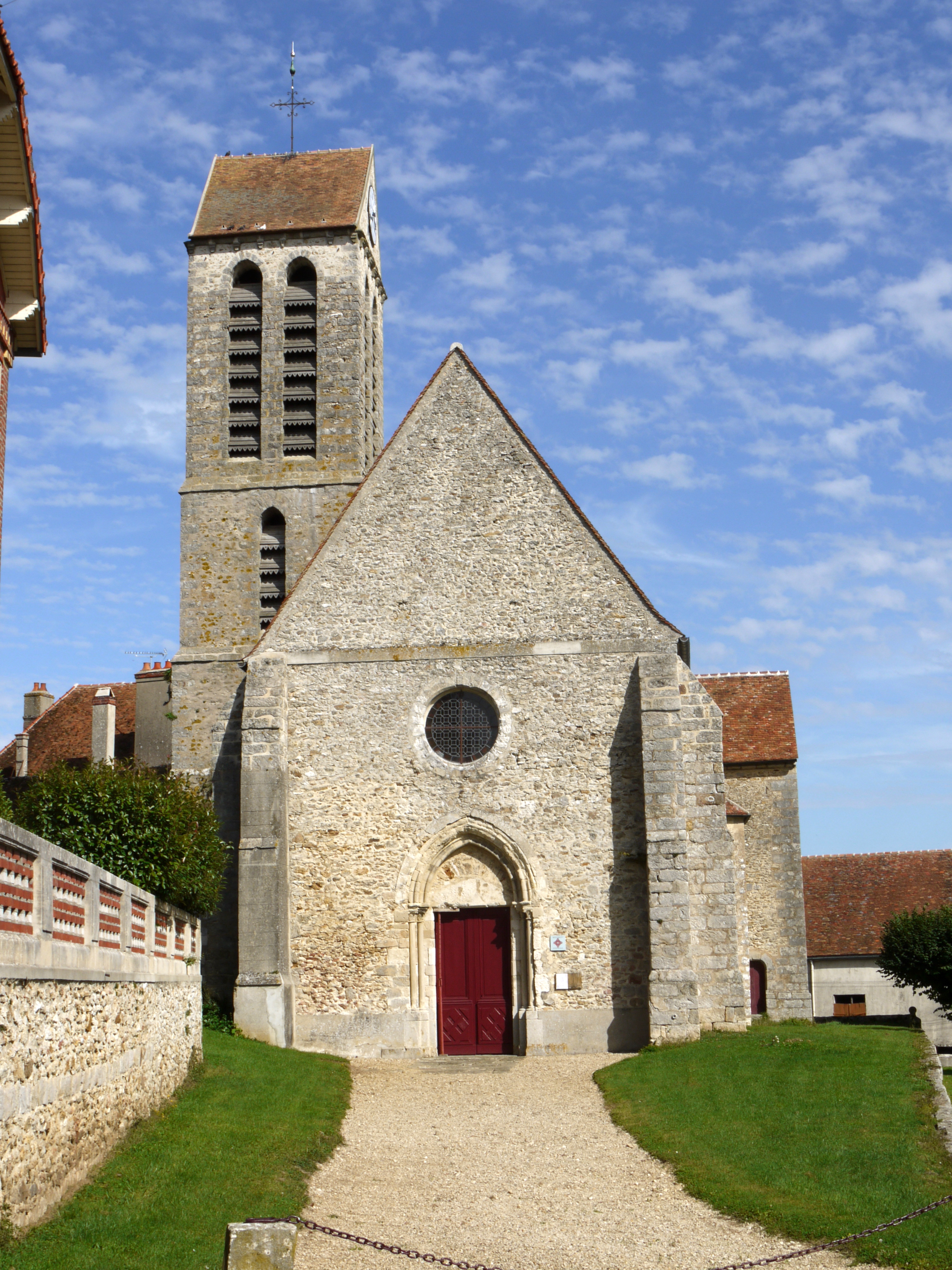 Church of Saint-Pierre de Bernay in Bernay-Vilbert, Seine et Marne, Ile de France. Church of the 12-13th century.